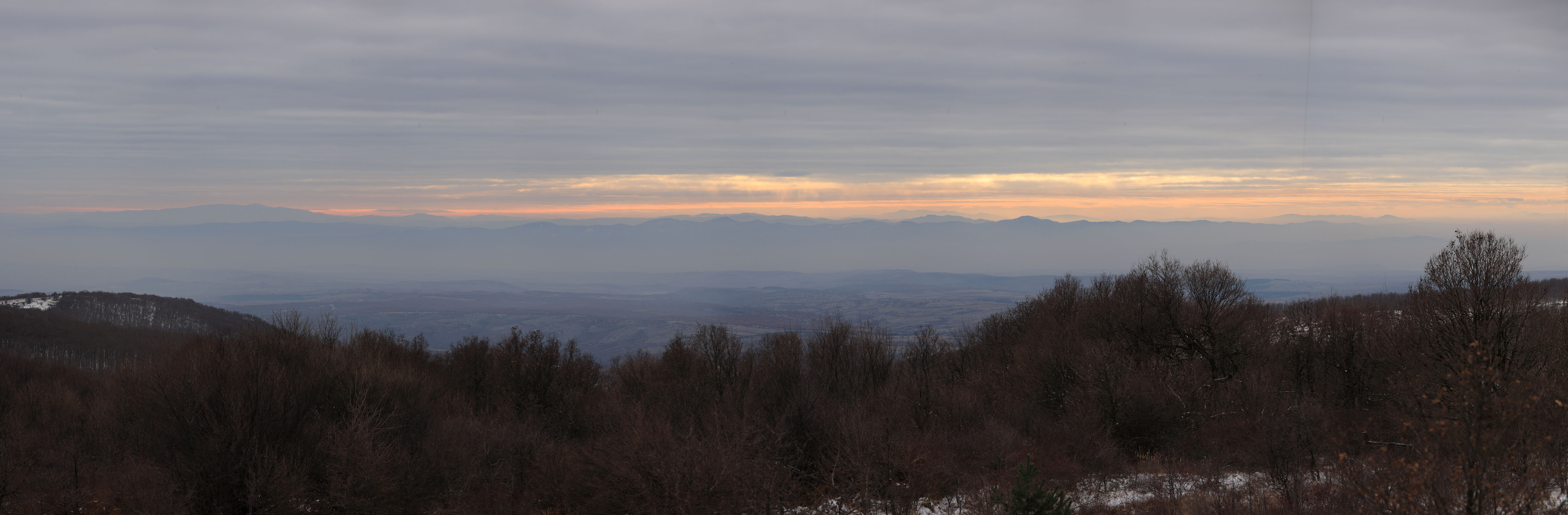 Panorama from Vishegrad peak, Sakar Mountain, Bulgaria